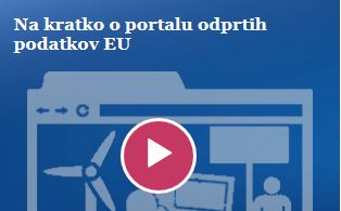 Screenshot from EUODP